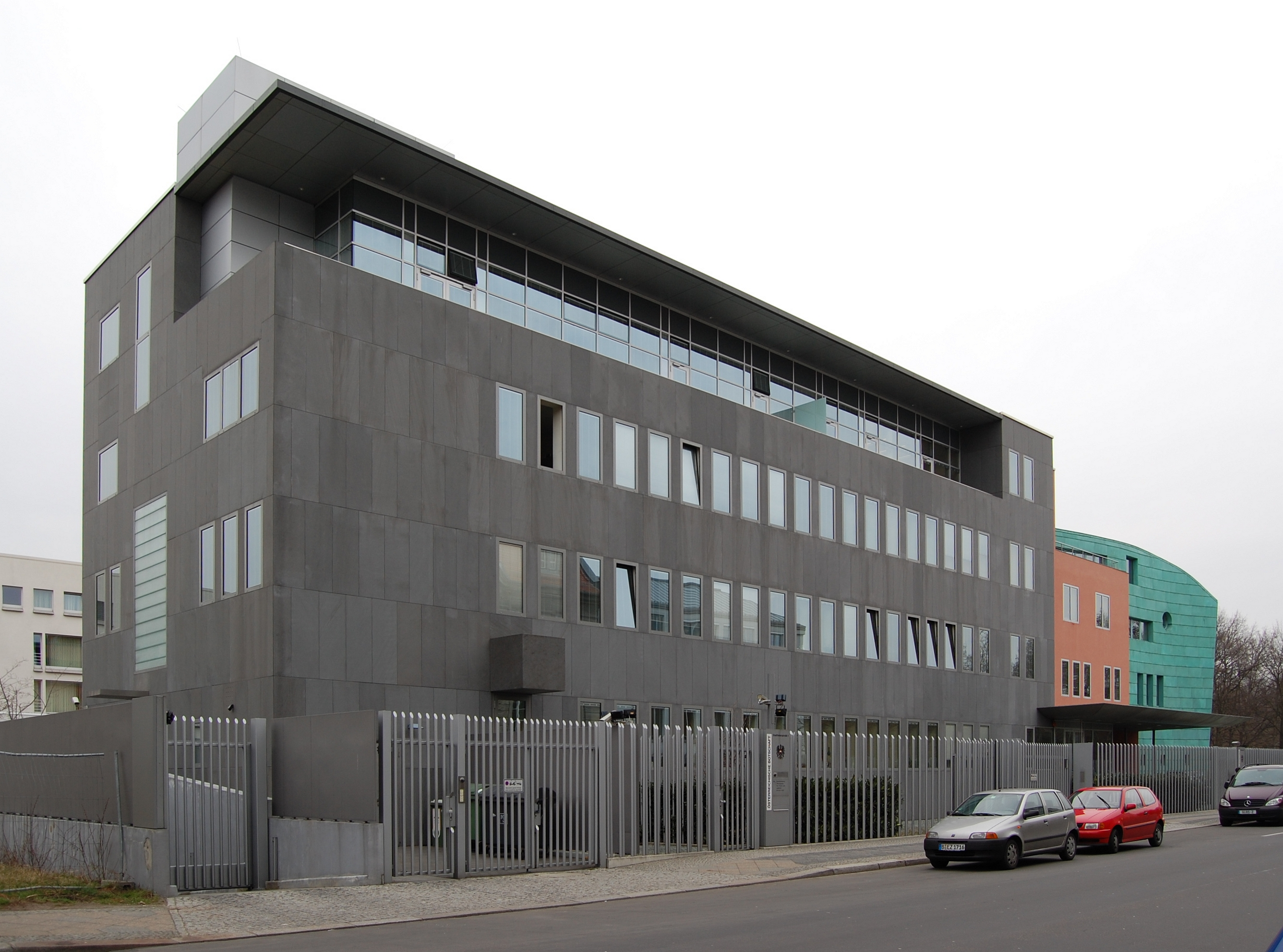 Austrian Embassy in Berlin